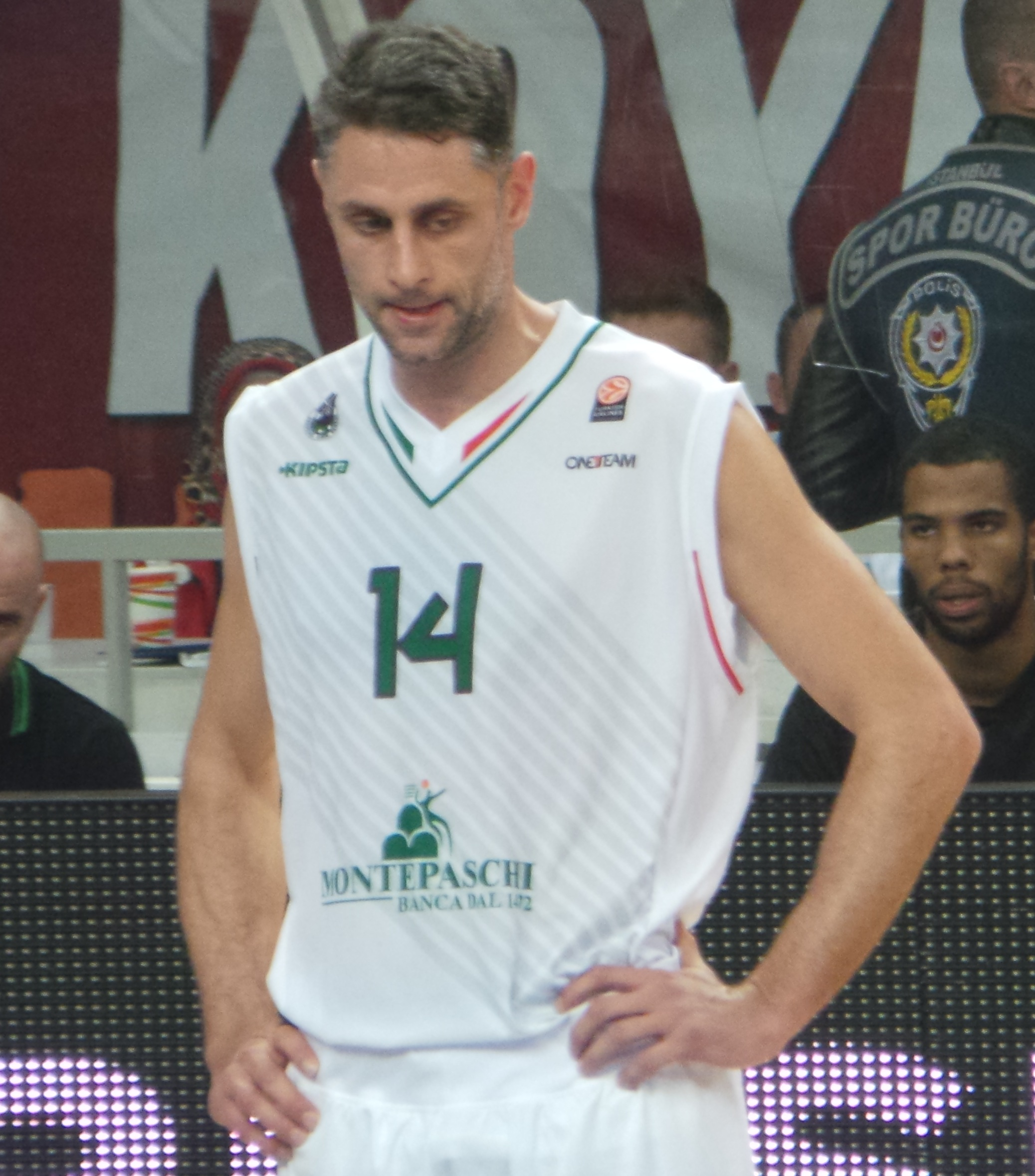 Tomas Ress